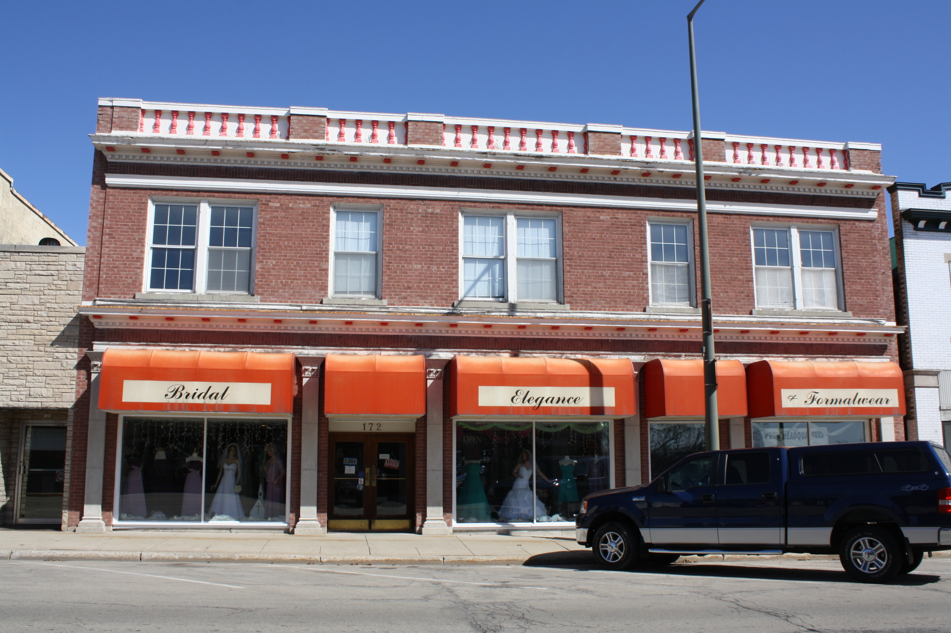 The Fargo's Furniture Store in Kaukauna, Wisconsin, listed on the National Register of Historic Places.